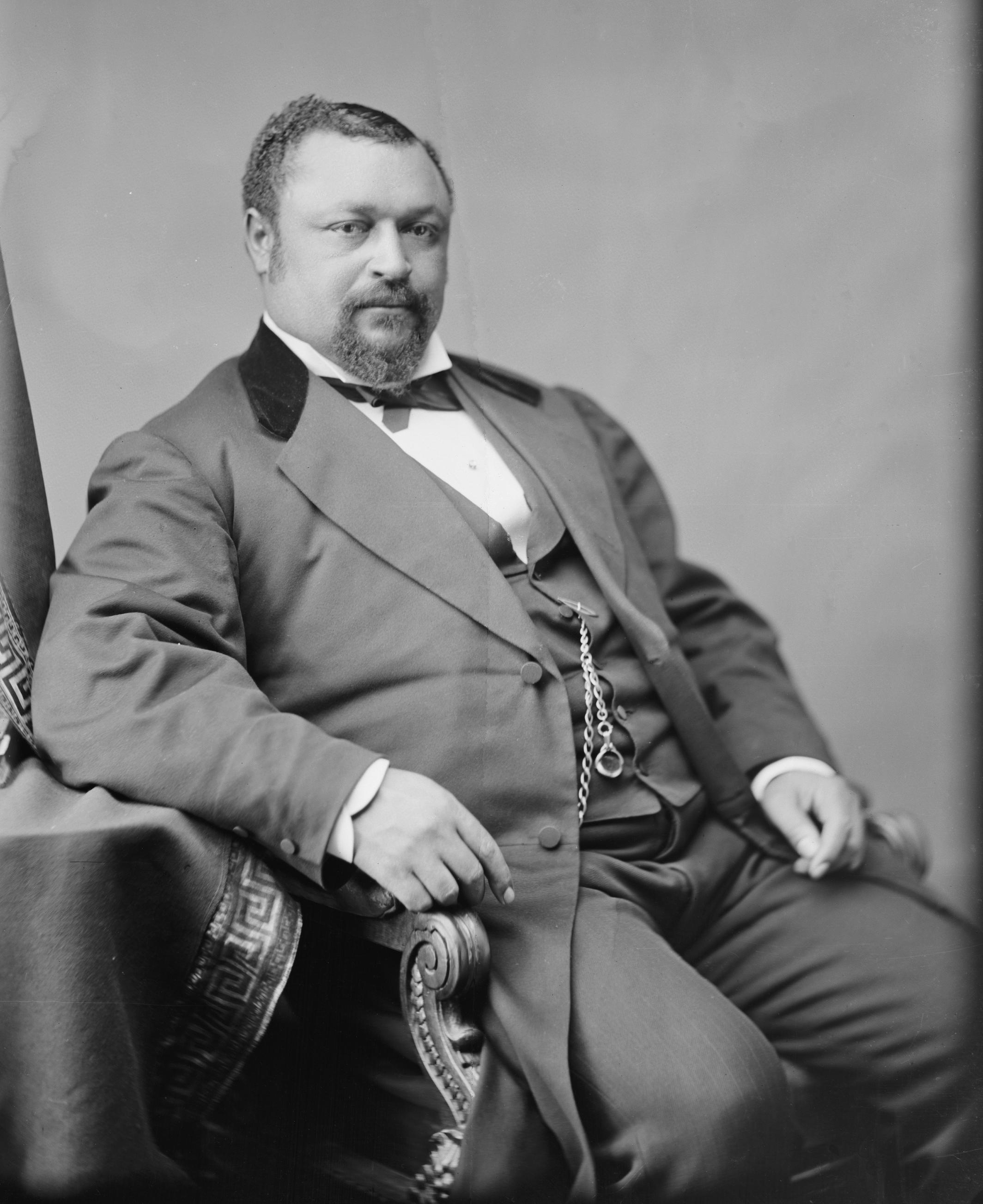 Blanche Bruce. Library of Congress description: "Hon. Blanche Kelso Bruce of Mississippi"